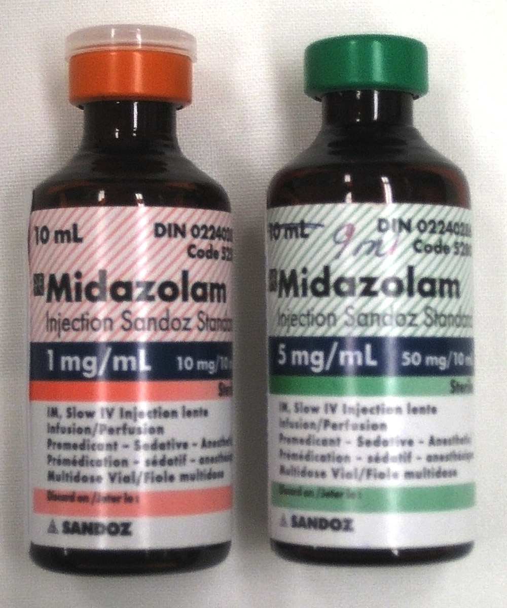 Intravenous midazolam of 1 mg/ml and 5 mg/ml concentrations